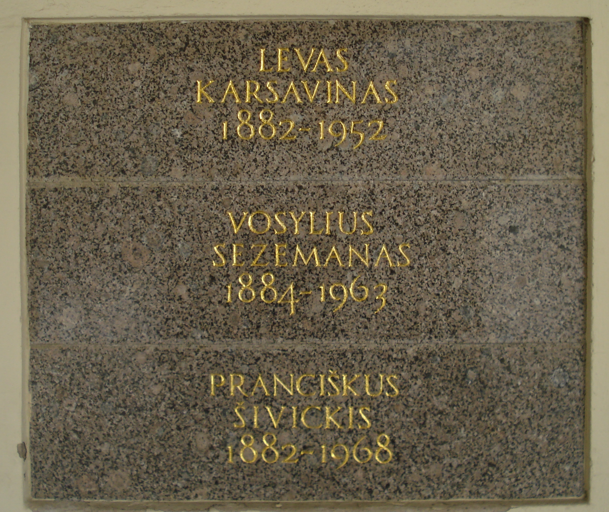 Lev Karsavin and Wassily Sezemann memorial tablets in the Great Courtyard of Vilnius University